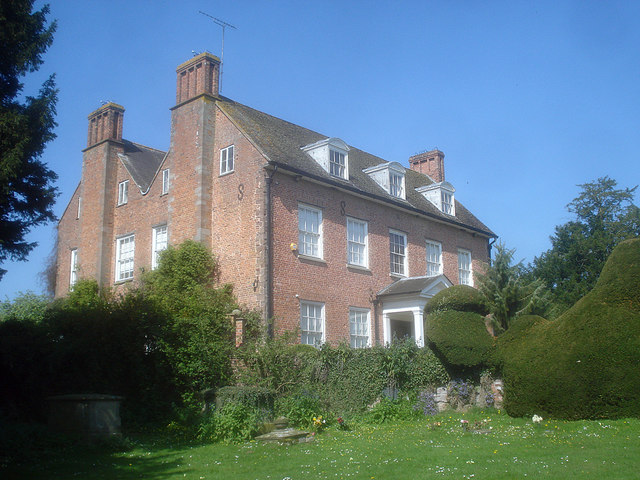 Eye Manor - 2 View north-west from the churchyard.